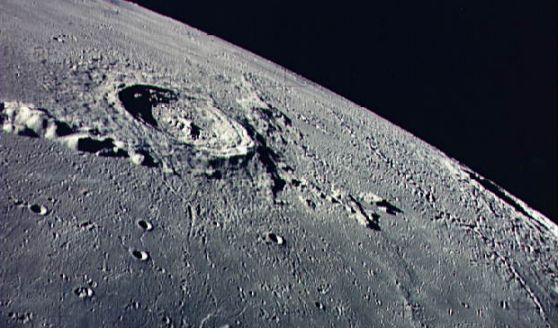 Crater Eratosthenes on the Moon.